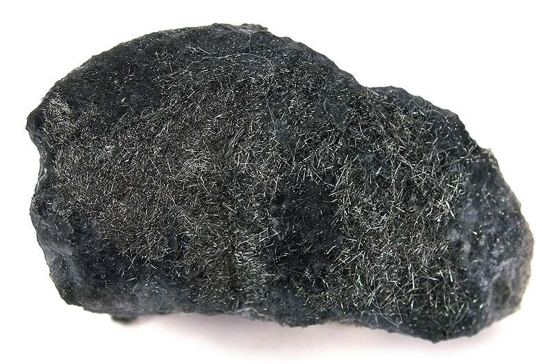 Dadsonite Locality: Saint-Pons, Ubaye valley, Alpes-de-Haute-Provence, Provence-Alpes-Côte d'Azur, France (Locality at ) Size: 3.8 x 2.3 x 1.7 cm. A rich specimen of this extremely rare lead/antimony sulfide which also contains chlorine in it. The surface is covered with acicular crystals, and the whole piece is probably massive dadsonite as well. Ex. Eric Asselborn and Alain Martaud Collections.